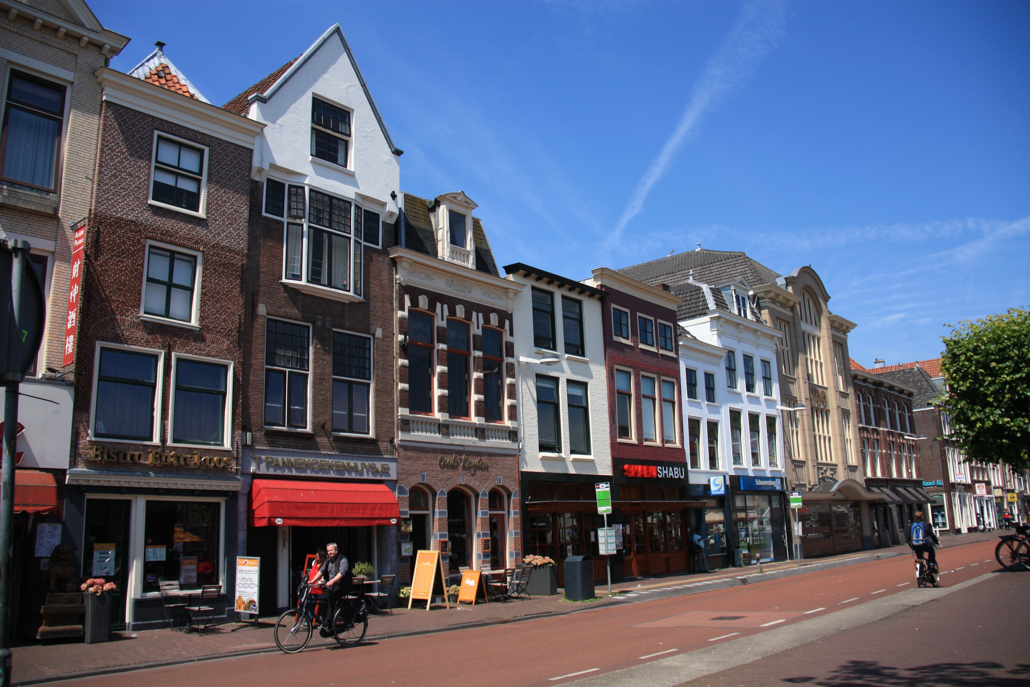 Steenstraat in Leiden, Netherlands